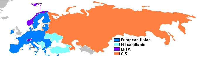 EU and CIS block